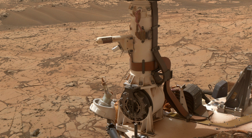 The Rover Environmental Monitoring Station (REMS) on NASA's Curiosity Mars rover includes temperature and humidity sensors mounted on the rover's mast. One of the REMS booms extends to the left from the mast in this view. Spain provided REMS to NASA's Mars Science Laboratory Project. The monitoring station has provided information about air pressure, relative humidity, air temperature, ground temperature, wind and ultraviolet radiation in all Martian seasons and at all times of day or night. This view is a detail from a January 2015 Curiosity self-portrait. The self-portrait, at was assembled from images taken by Curiosity's Mars Hand Lens Imager.